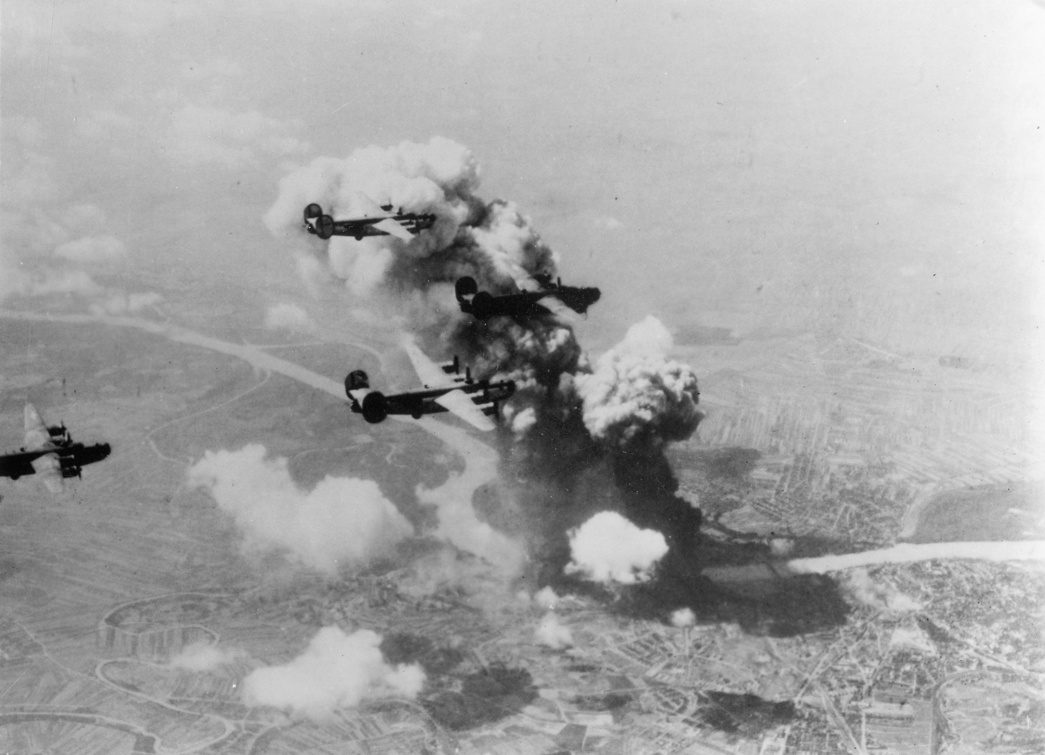 On June 16, 1944 four waves of B-24 Liberator bombers of 98th, 376th, 449th and 450th Bombardment Group of Fifteenth Air Force (overall 158 planes) attacked Apollo refinery, winter docks and bridge across the Danube river in Bratislava, Slovakia.